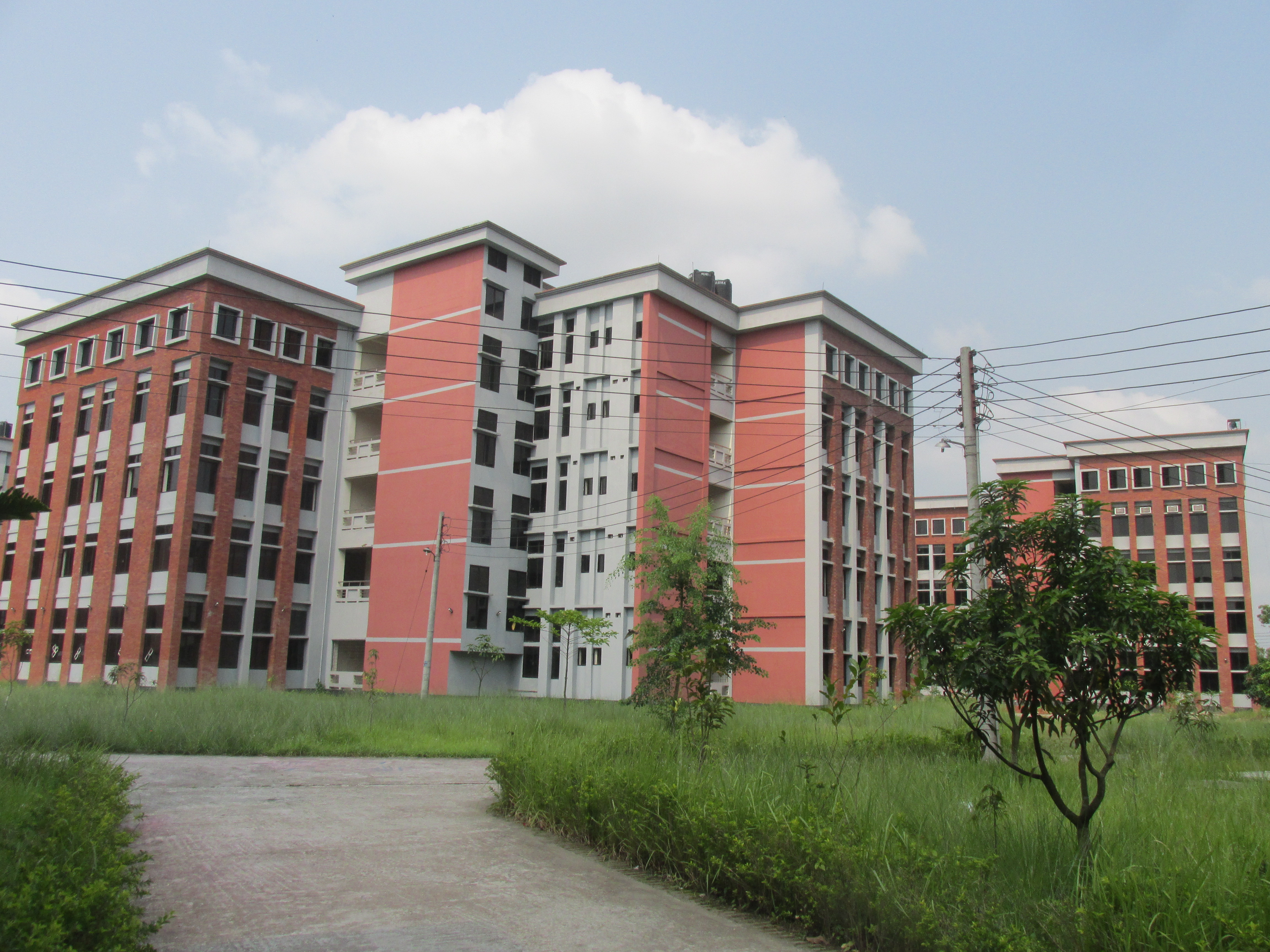 Mymensingh